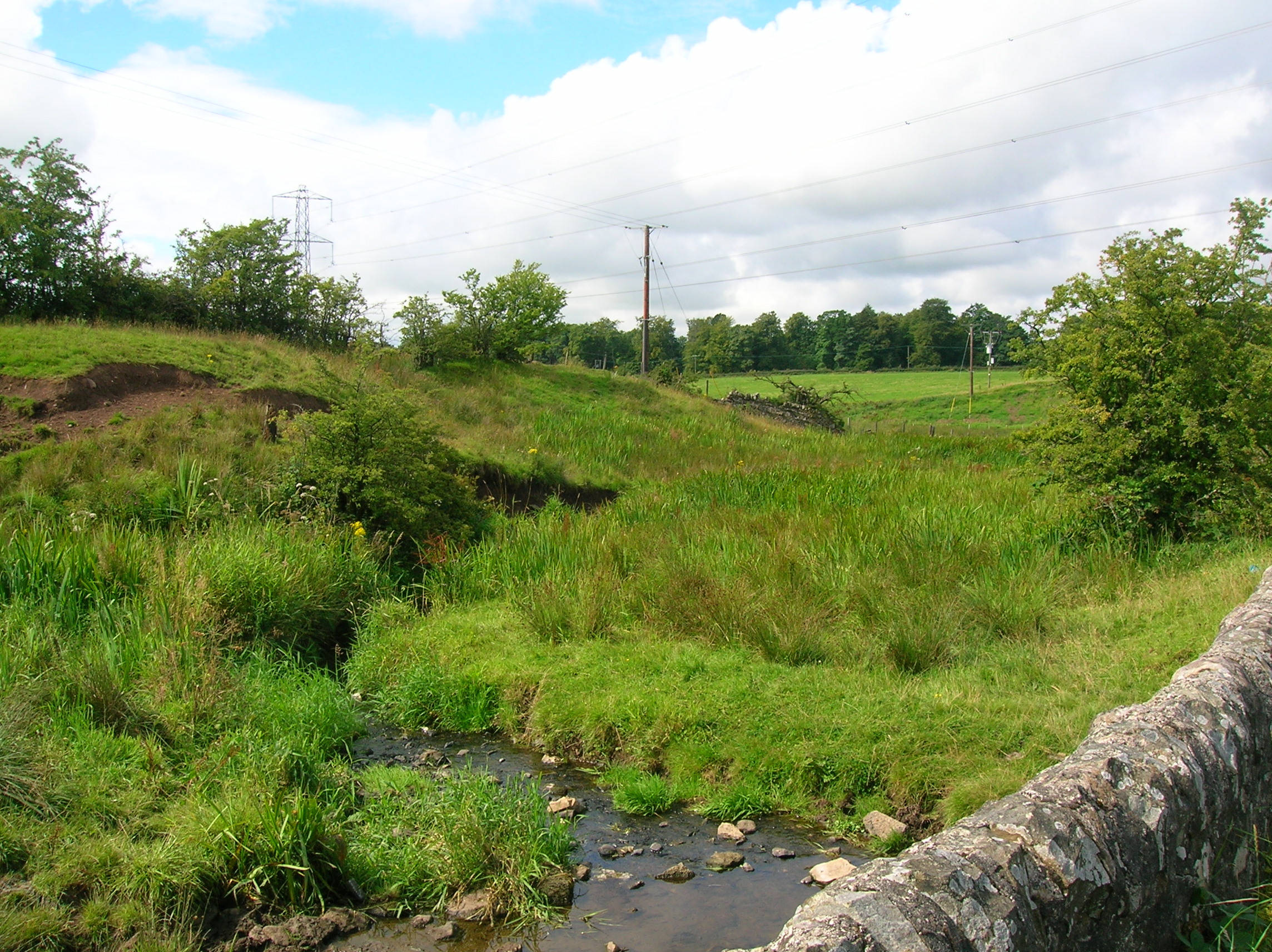 The Crooked Dam on the Fairy Glen of the Powgree Burn near Gateside, North Ayrshire, Scotland.